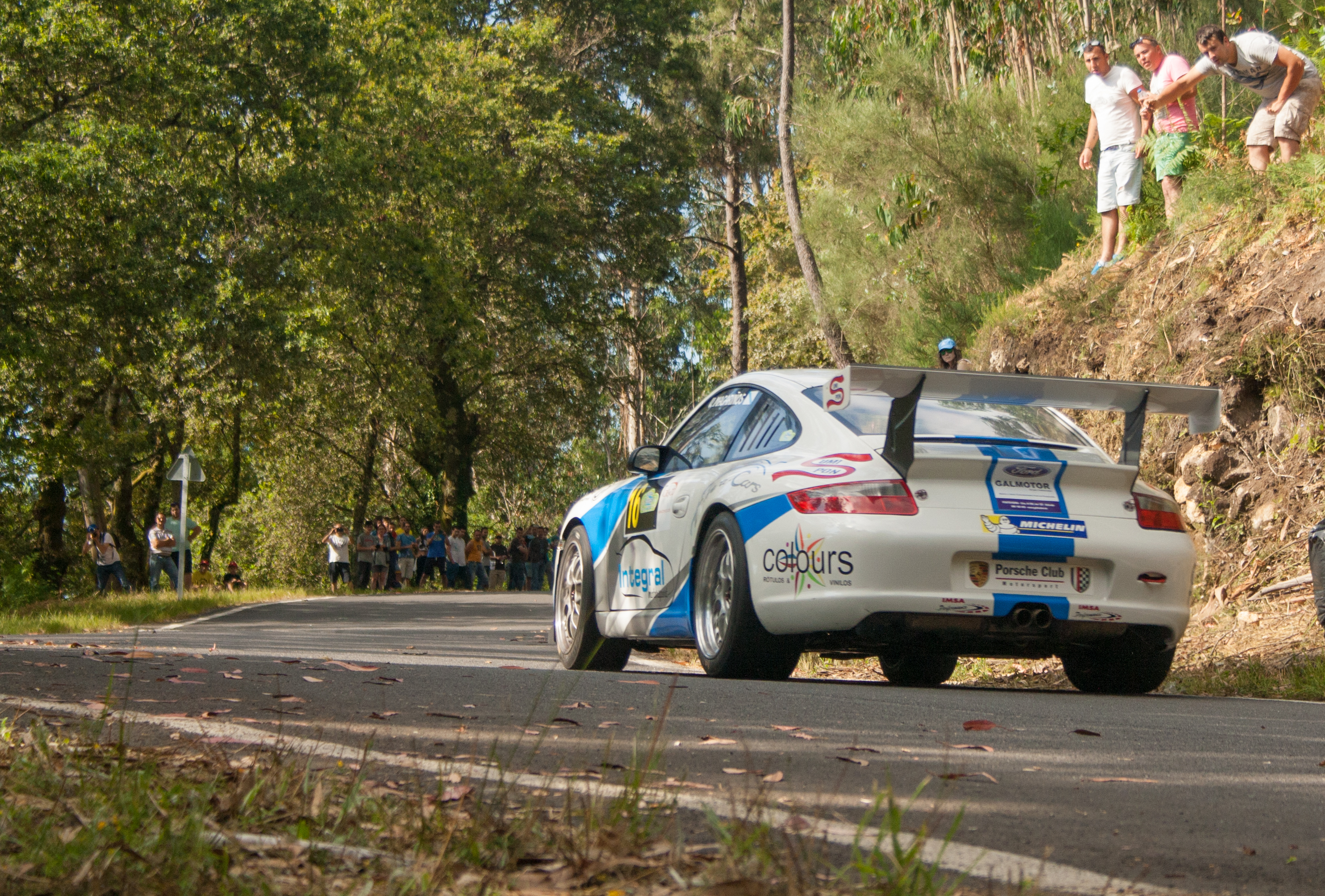 Porsche 911 GT3 CUP